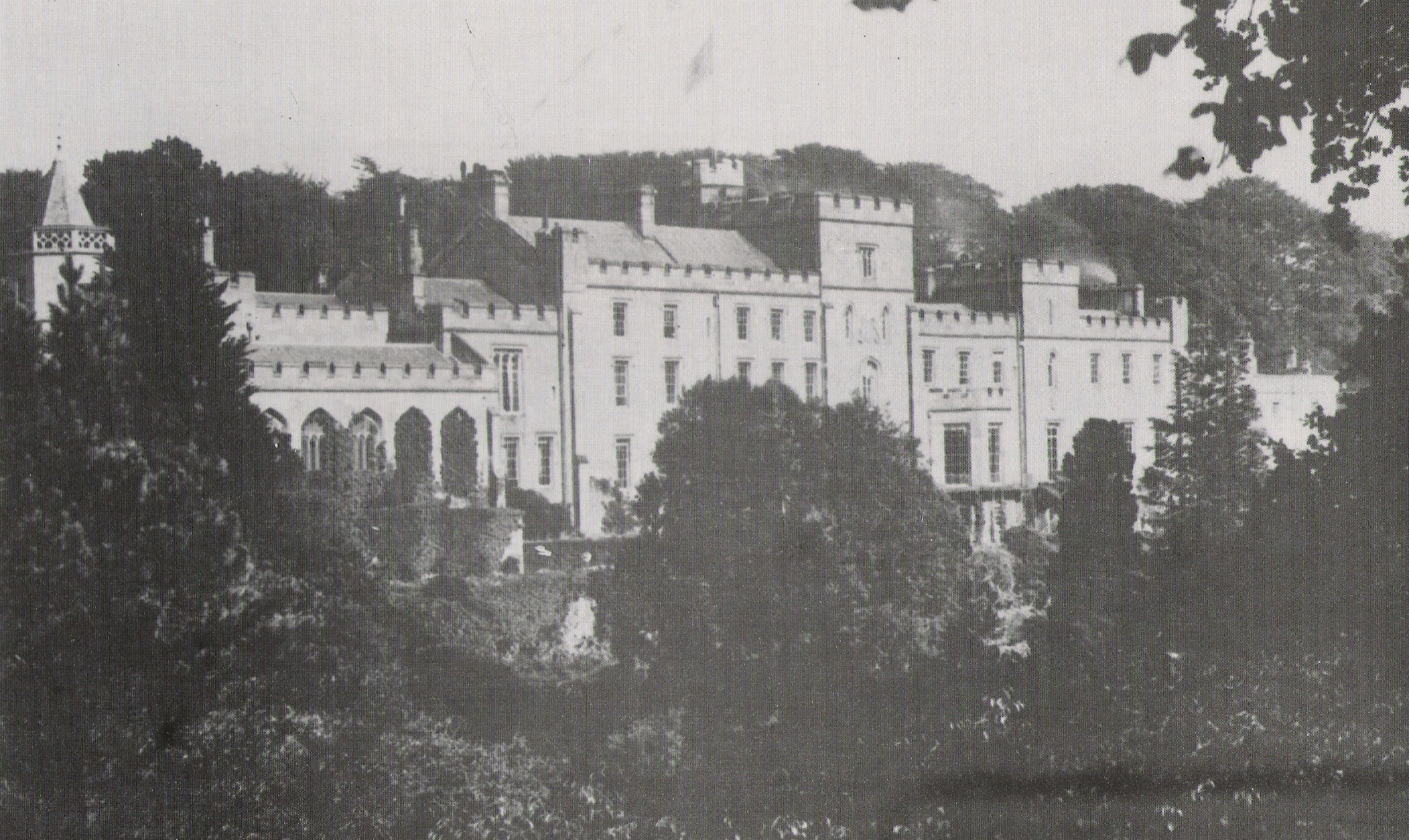 An old faded photo, circa 1900. Photographer unknown. No known copyright.